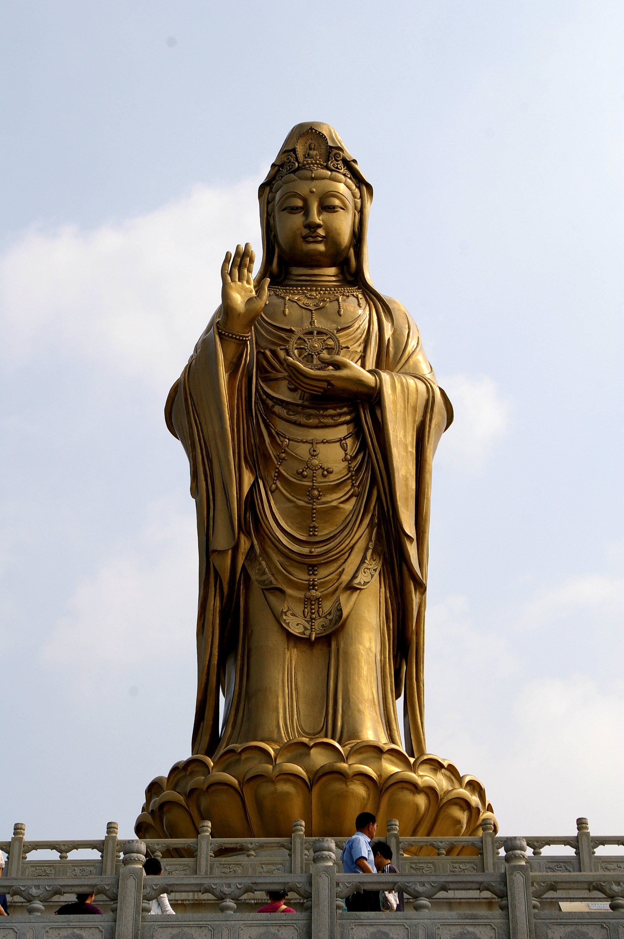 Statue of Guan Yin on Mount Putuo island